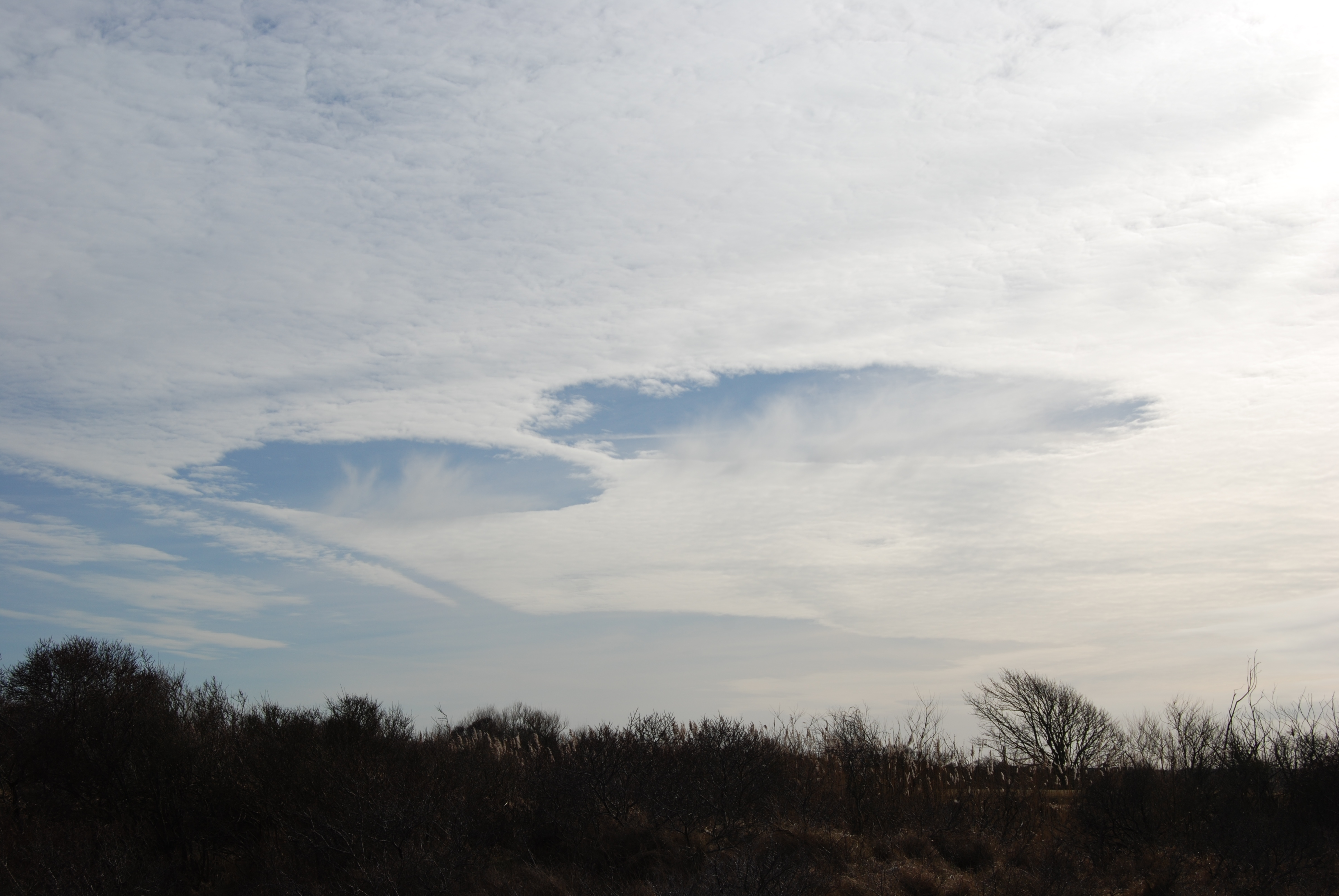 Fallstreak - Noordwijkerhout (NL)